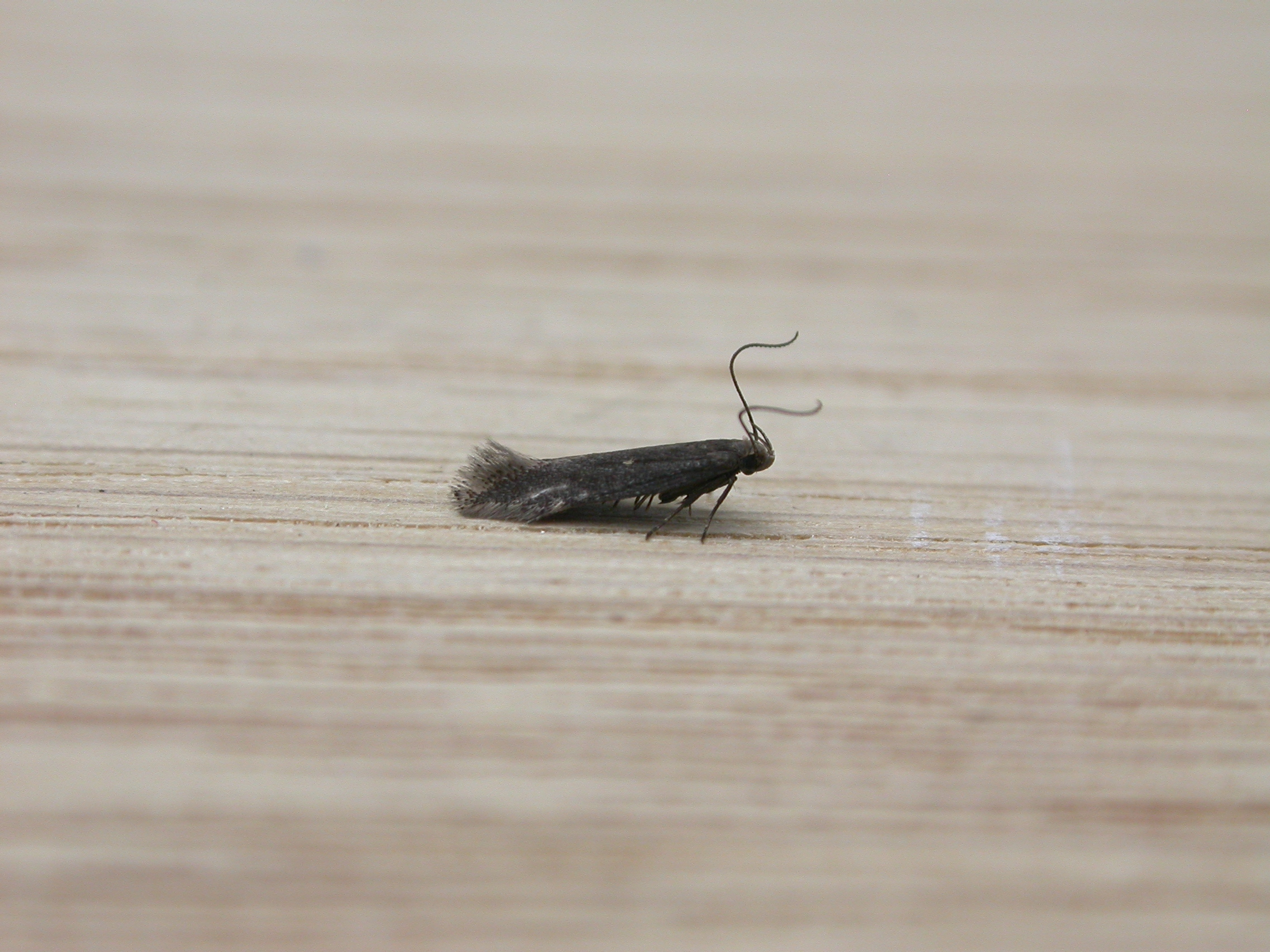 Aproaerema anthyllidella (Hübner, 1813), to Robinson trap, Hellerup, Denmark, 31 May/1 June 2012